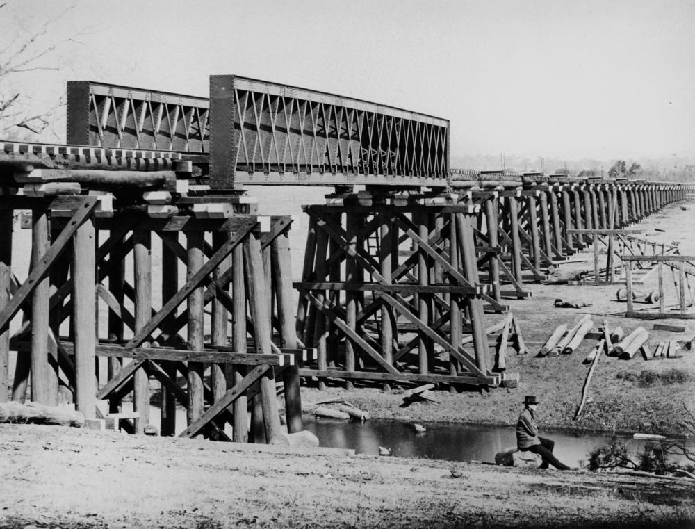 Condamine River Railway Bridge, Warwick district, 1882 Wooden trestle railway bridge crossing the river plains outside Warwick.This is the longest bridge on the southern line. Its total length when built was 1979 feet 6 inches, and includes one 100 ft iron girder span over the river and eighty-seven 20 ft spans, the twenty-sixes having double and the twenties single wooden girders. It was officially opened on 5th May 1880.